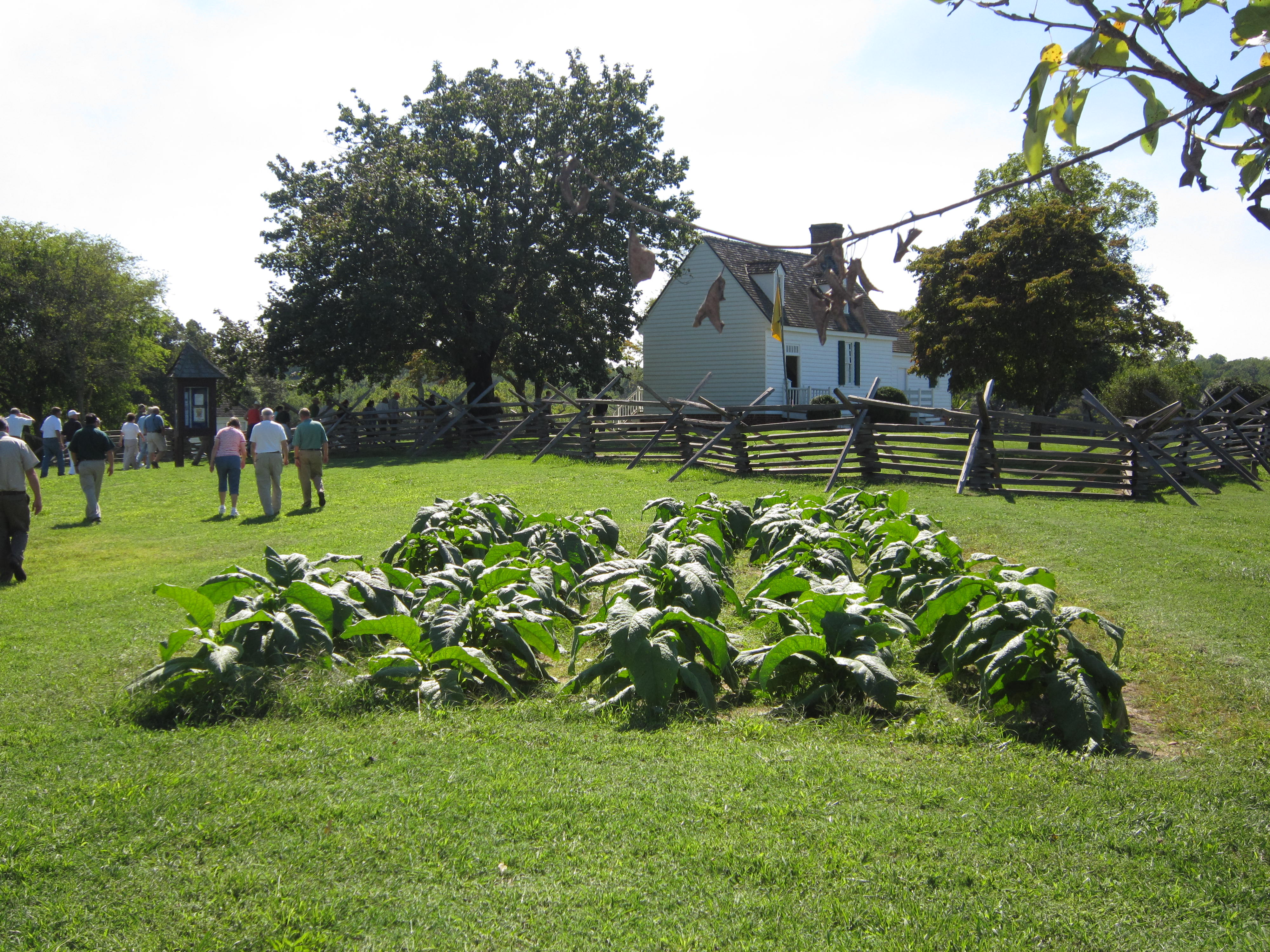 Hillsman Farm House Museum